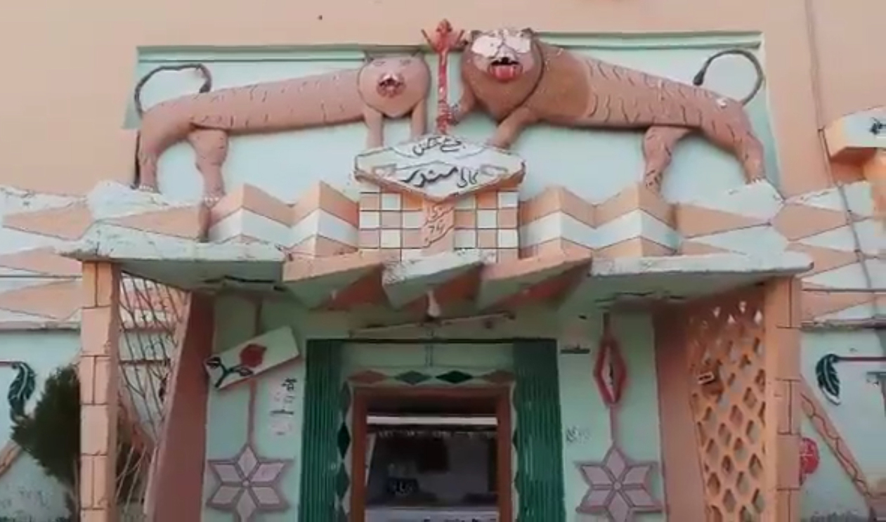 Kalat Kali Temple is a Hindu temple situated in Kalat City, Kalat District, Balochistan, Pakistan. According to Hinduism, this temple is devoted to the Hindu deity Kali. The traveling distance of Kalat is almost 130 Kilometres from Quetta Balochistan and it takes almost 2 hours to reach Kalat. It was built 1500 years ago. The temple has the second biggest Kali Mata Statue in Asia. Hindus not only of Pakistan but from India also come here to visit the temple.